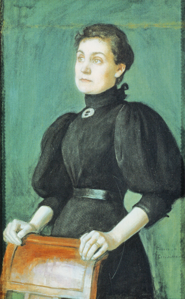 Portrait of Saimi Jarnefelt